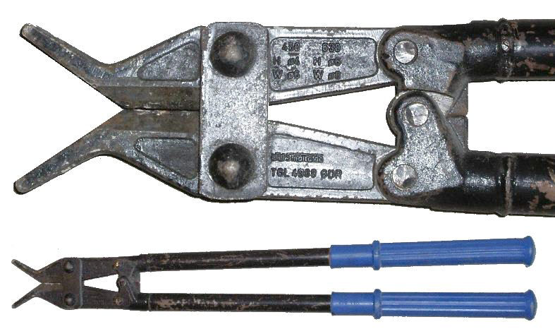 bolt cutter